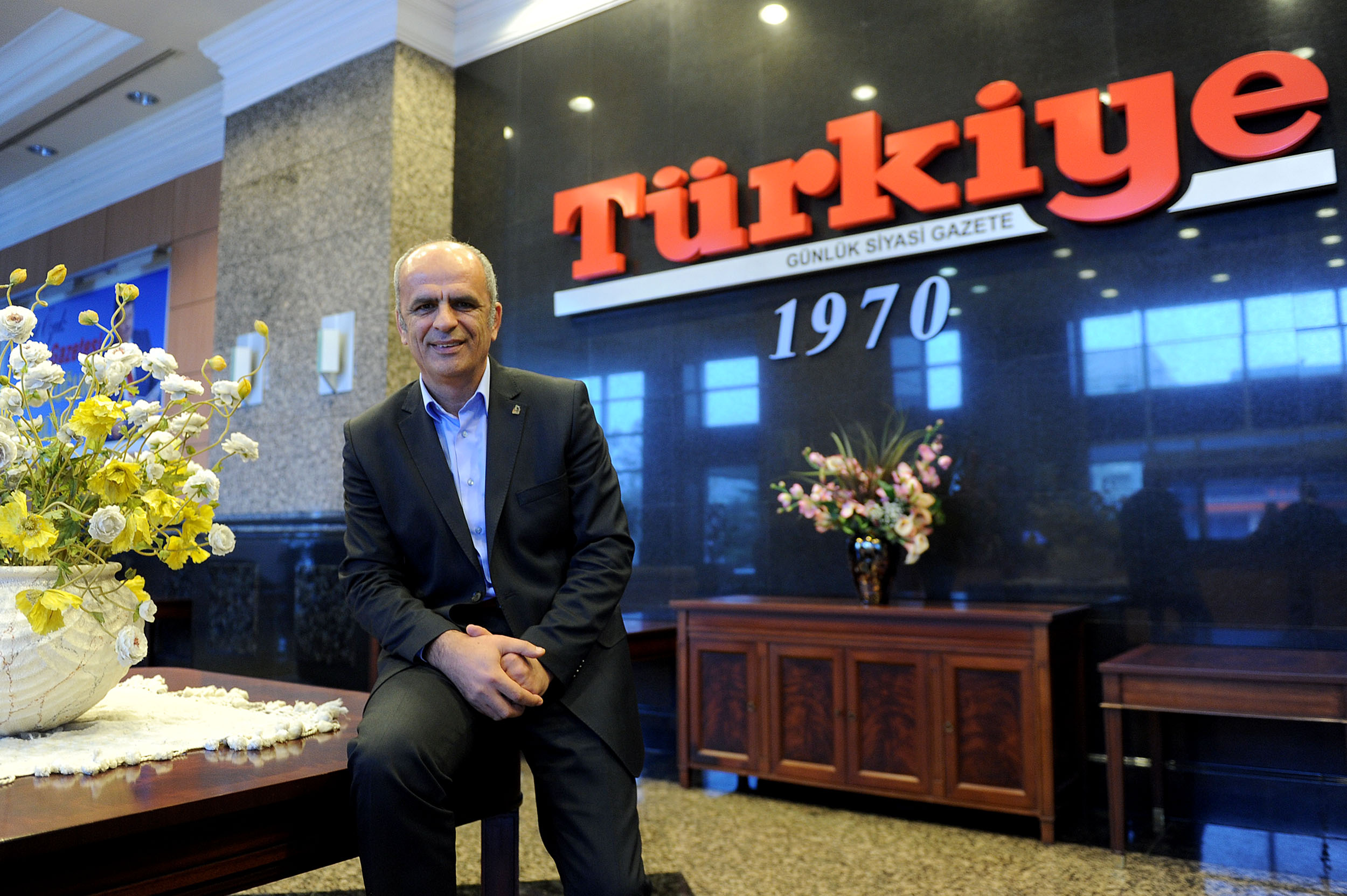 Türkiye Gazetesi Yazý Ýþleri Müdürü Sadýk Söztutan. 23 Aralýk 2012 / Mühenna Kahveci